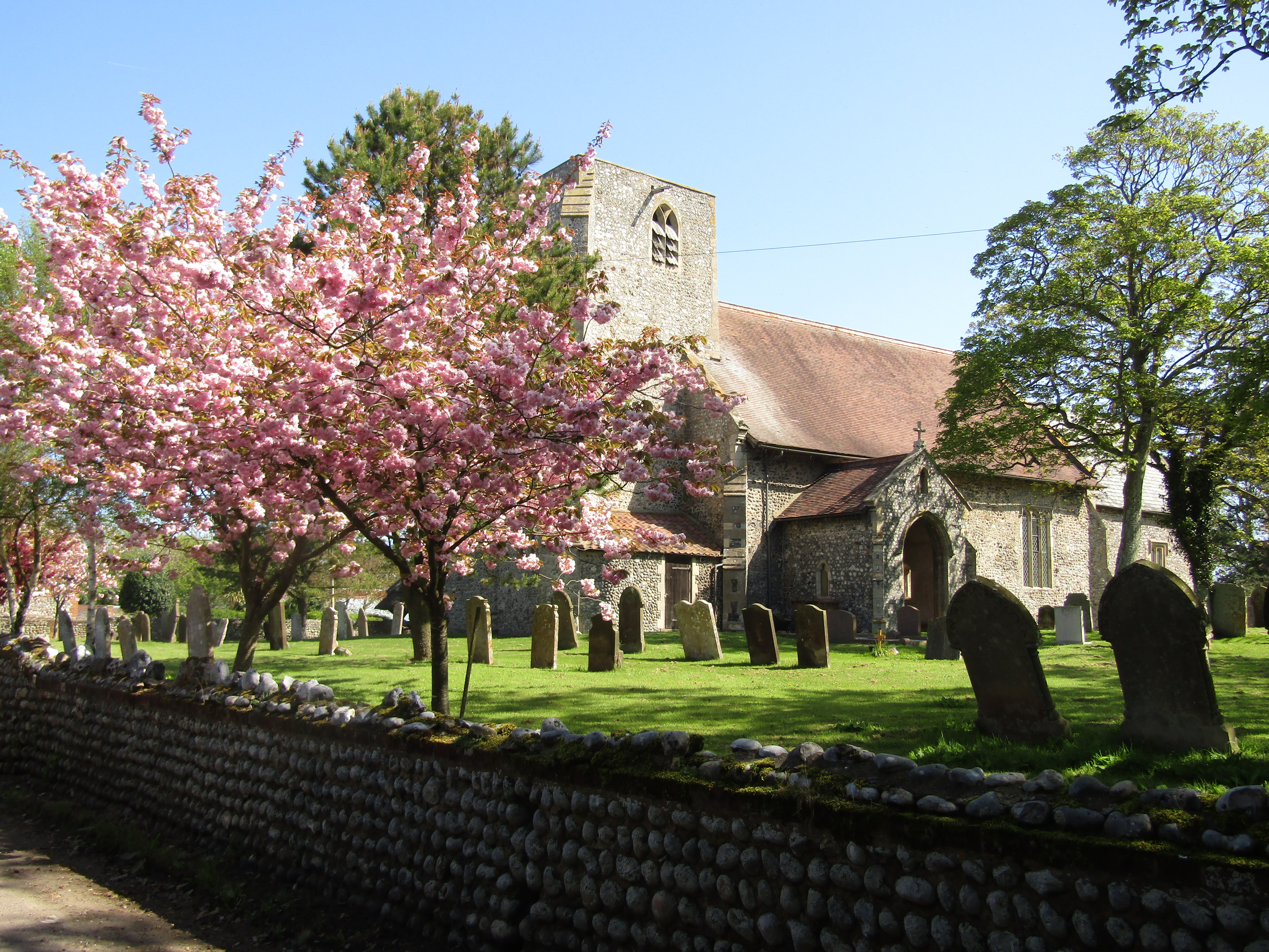 The parish church of Saint John the Baptist's Head is located on Church Street in the village of Trimingham, Norfolk, United Kingdom.